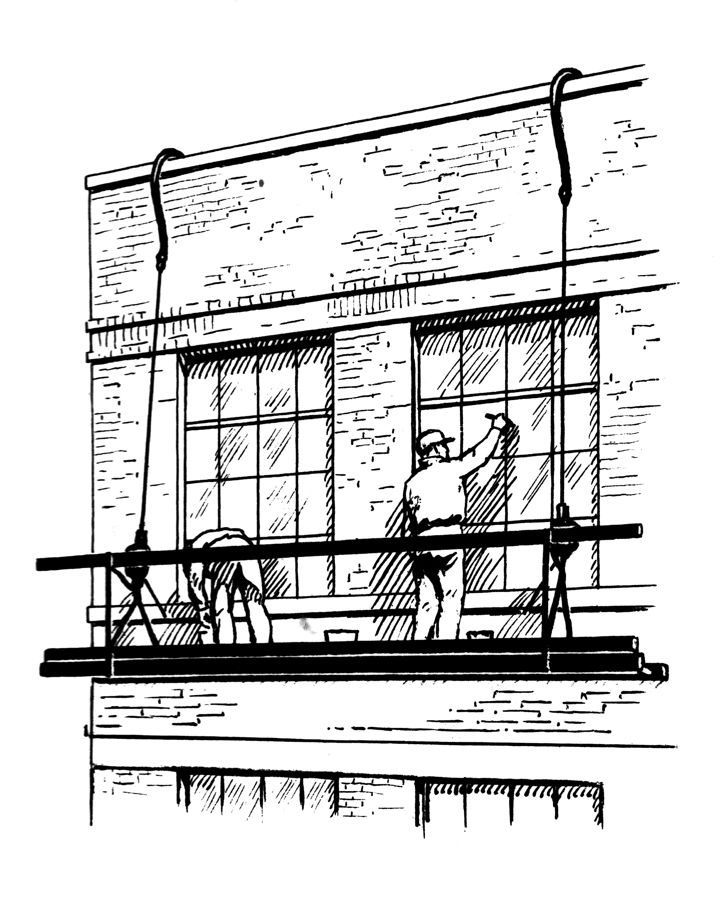 Line art drawing of a scaffold